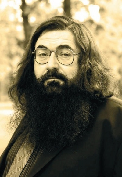 Dovid Katz (photo by Ida Olniansky, Lund, Sweden, May 2010)